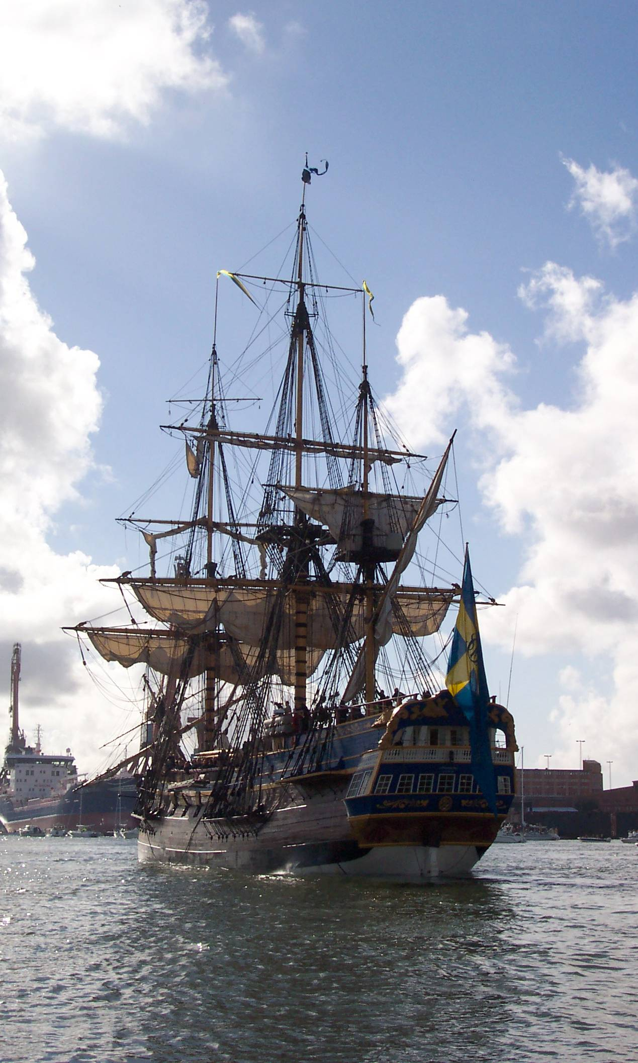 Departure of the ship "Ostindiefararen Götheborg" from Gothenburg in October 2005